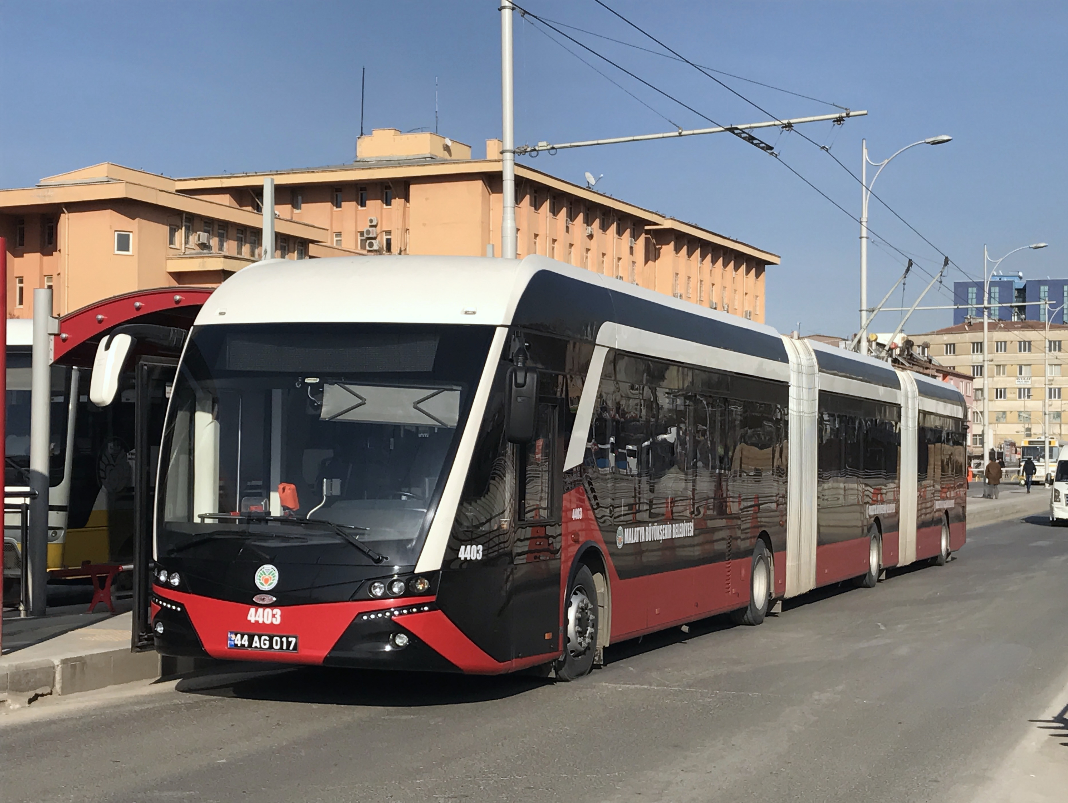 Trolleybus 4403 of the "Trambus" system in Malatya, Turkey, at the Bugday Pazari stop. The trolleybus system opened in March 2015 and uses bi-articulated vehicles built mostly in Turkey, by Bozankaya (of Ankara), and fitted with Vossloh Kiepe propulsion equipment.